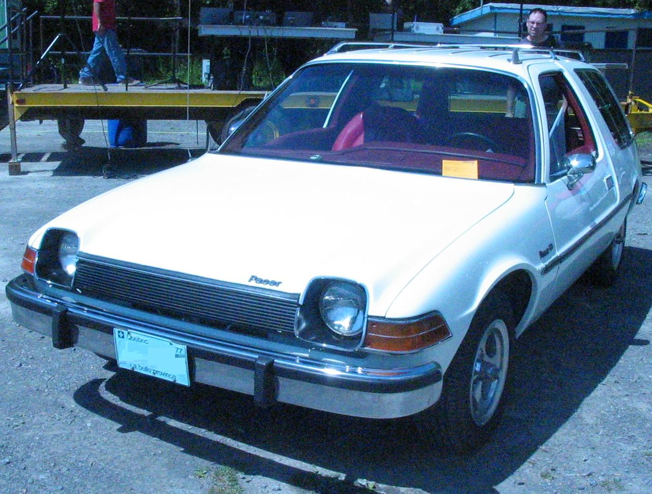 1977 AMC Pacer photographed in Laval, Quebec, Canada at the Auto classique Laval.